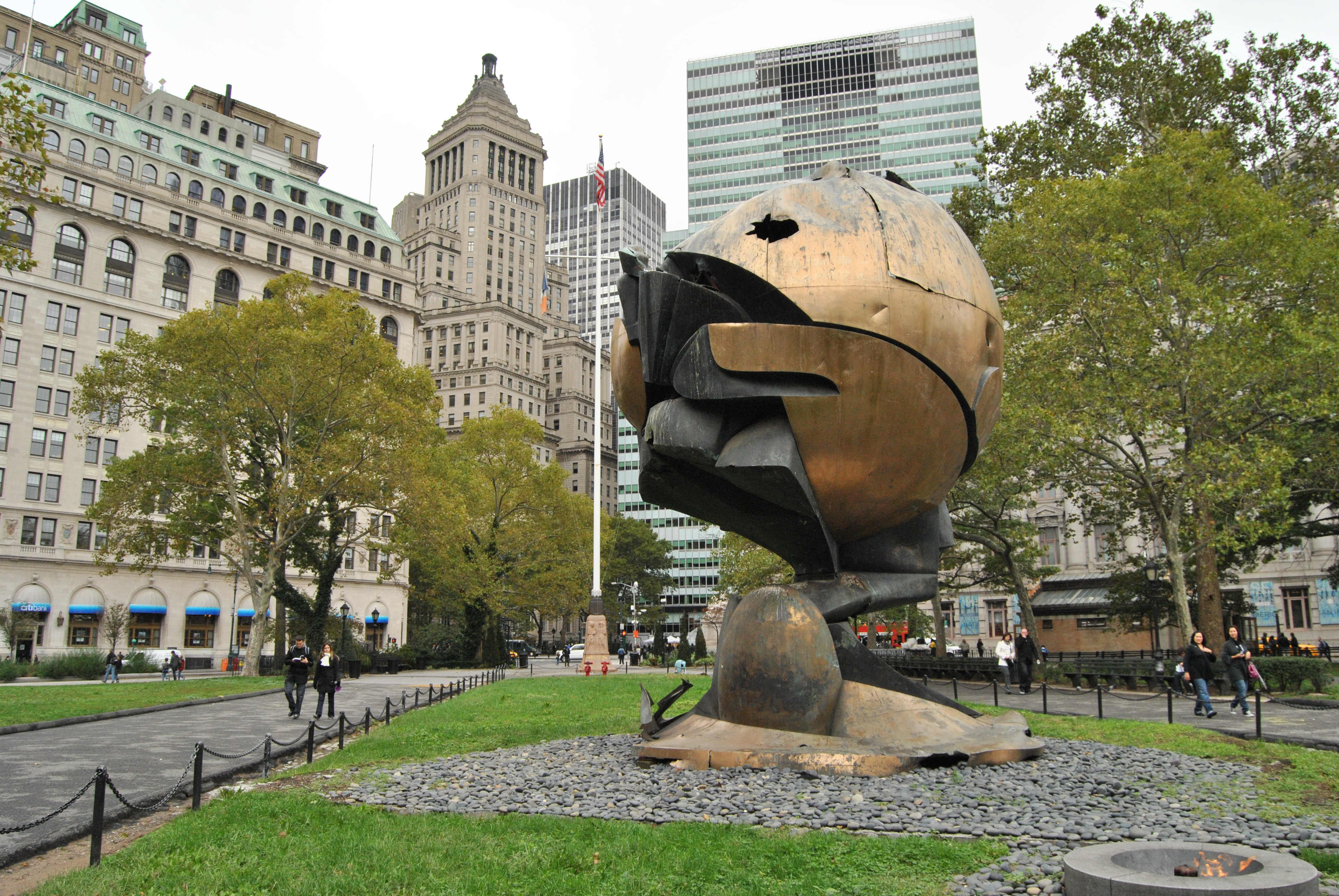 World Trade Center Memorial - New York - NYC - USA